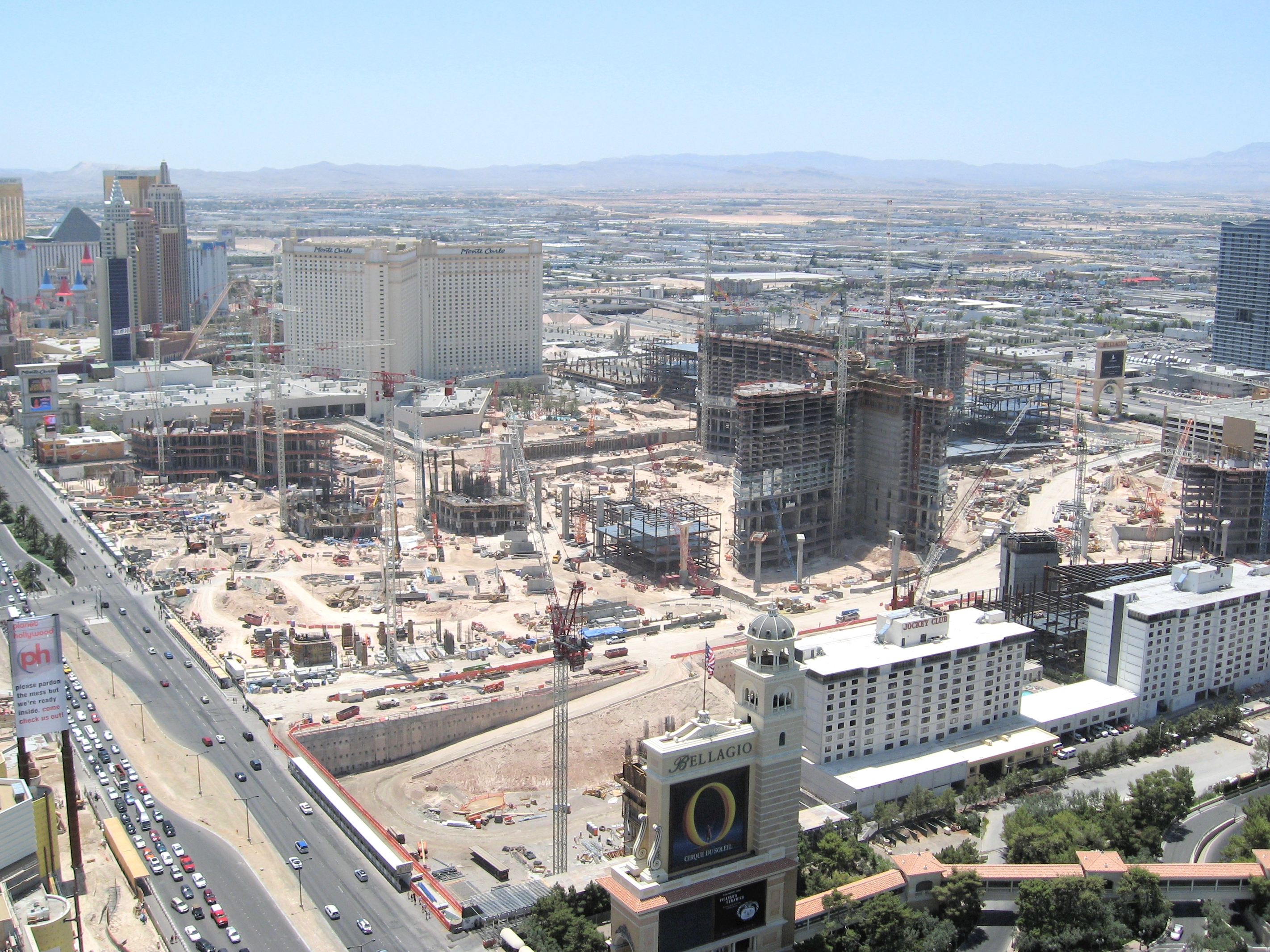 Project CityCenter in Las Vegas, photo taken in June 2007 from the Eiffel Tower of Paris Las Vegas